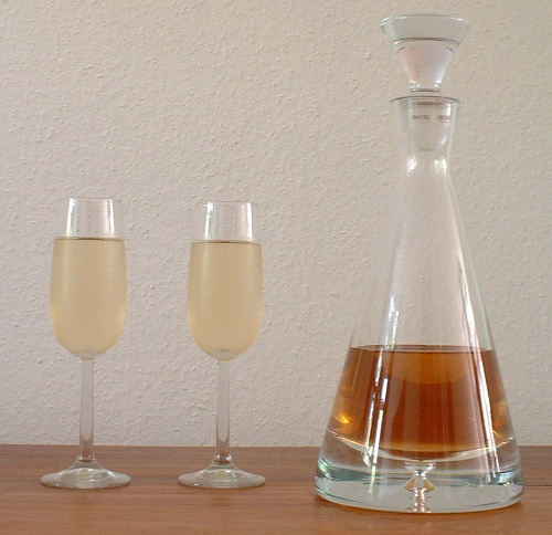 Image of Chardonnay used for Kir Royal.